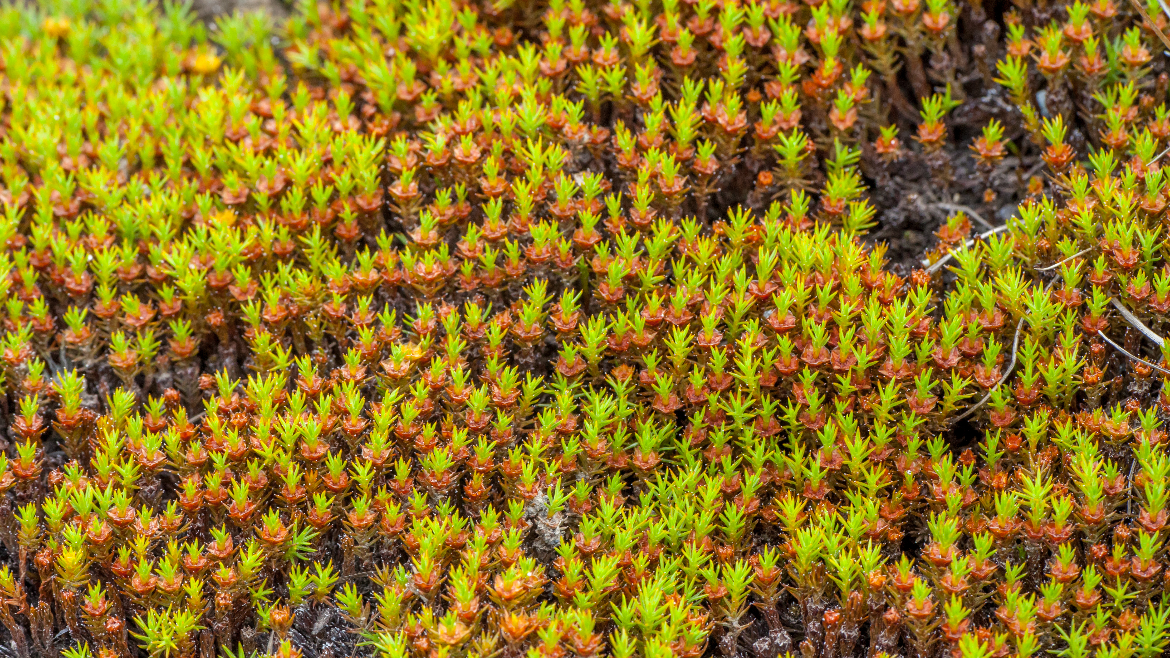 In summer the tundra of Svalbard is covered with a low-growing but lush flora. Moss grows abundantly especially in very humid areas such as the ice wedges.